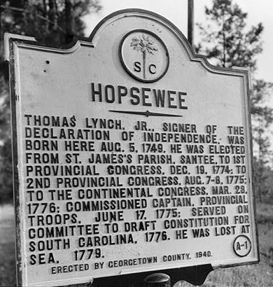 Hopsewee Historical Marker (Georgetown County, South Carolina} {Cropped}